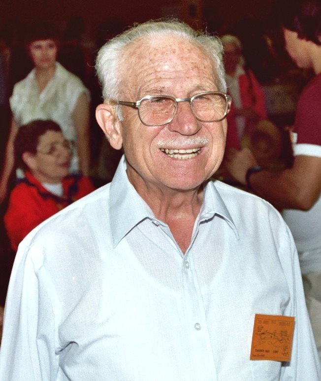 The voice of Donald Duck - Clarence "Ducky" Nash (1904-1985), at the 1982 San Diego Comic Con (today called Comic-Con International). depicted person: Clarence Nash (age: 77)